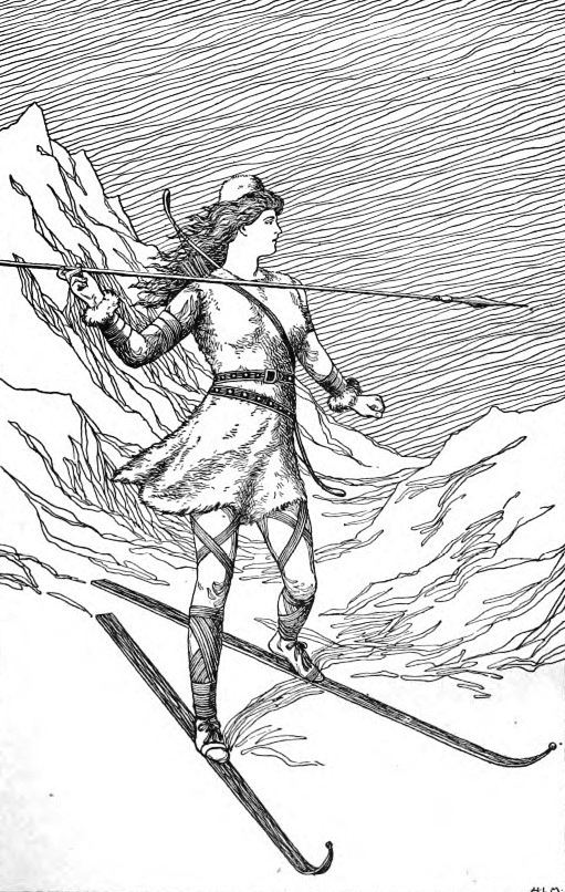 Captioned as "Skadi Hunting in the Mountains".